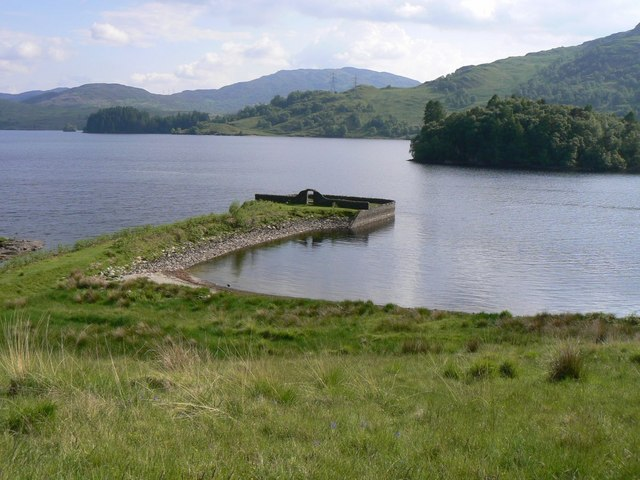 Clan MacGregor Burial Ground The cemetery lies just to the south of Glengyle house, on the west side of Loch Katrine. The inscription over the gateway bears the MacGregor of Glengyle crest and motto, "E'en do and spare not."